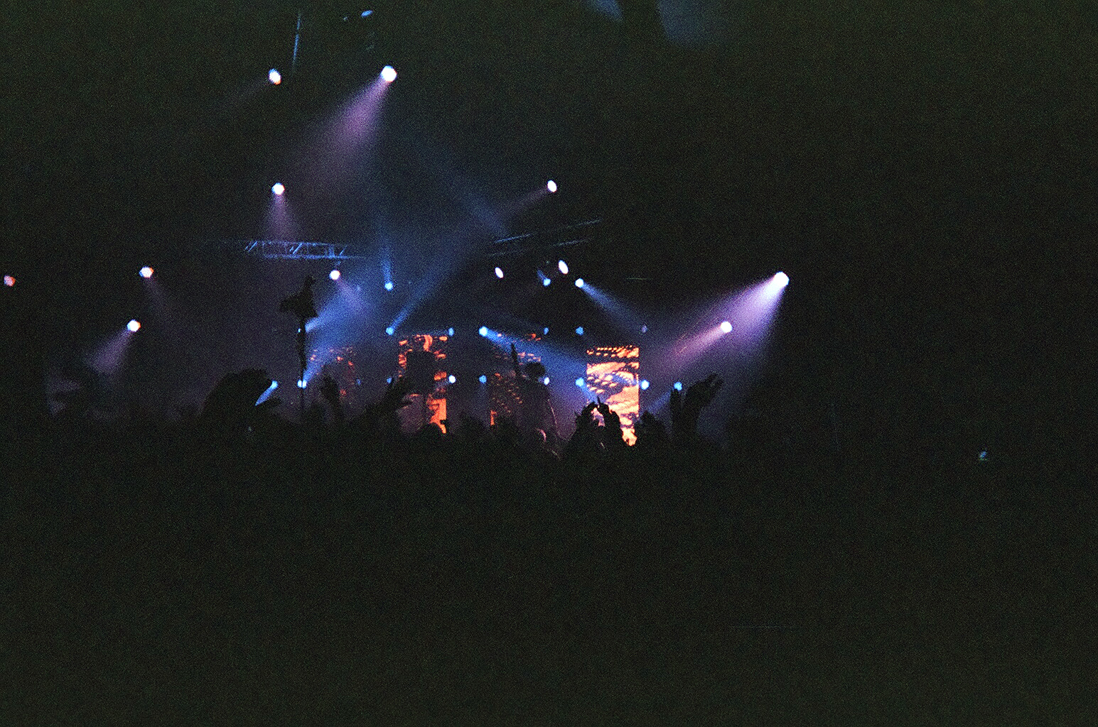 Dubstep artist NERO performing live on July 9 2011 at the 10th Anniversary Camp Bisco Music Festival in Mariaville, New York